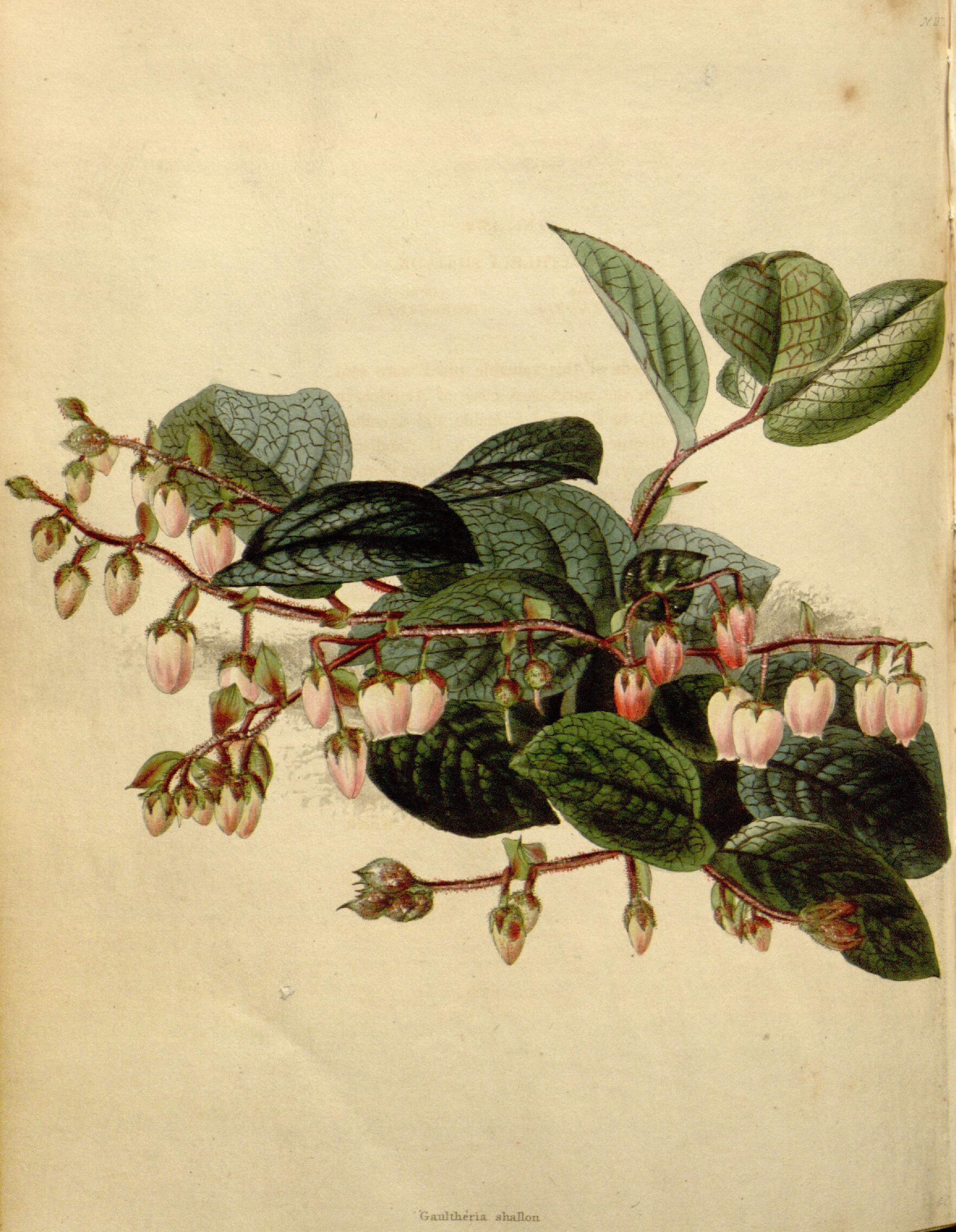 Gaultheria Shallon from "The Botanical Cabinet" (London 1817-1833) plate 1372